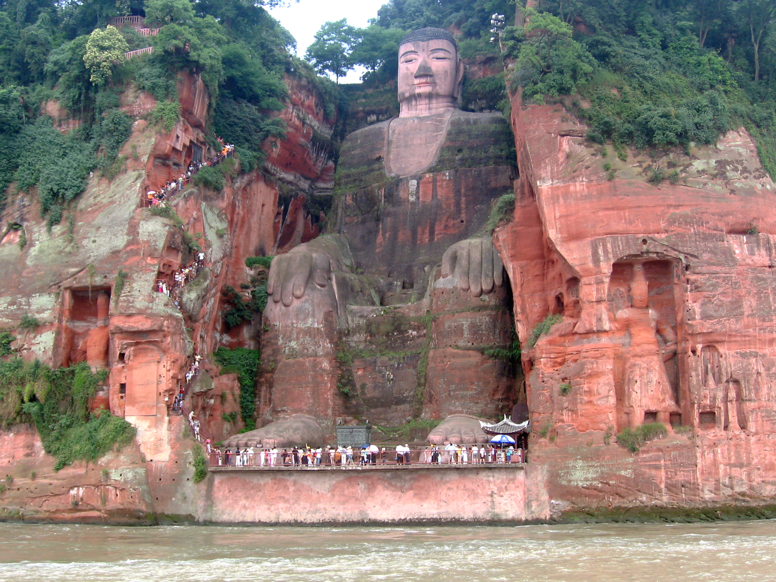 A full view of the Giant Buddha Statue of Leshan, Sichuan, China